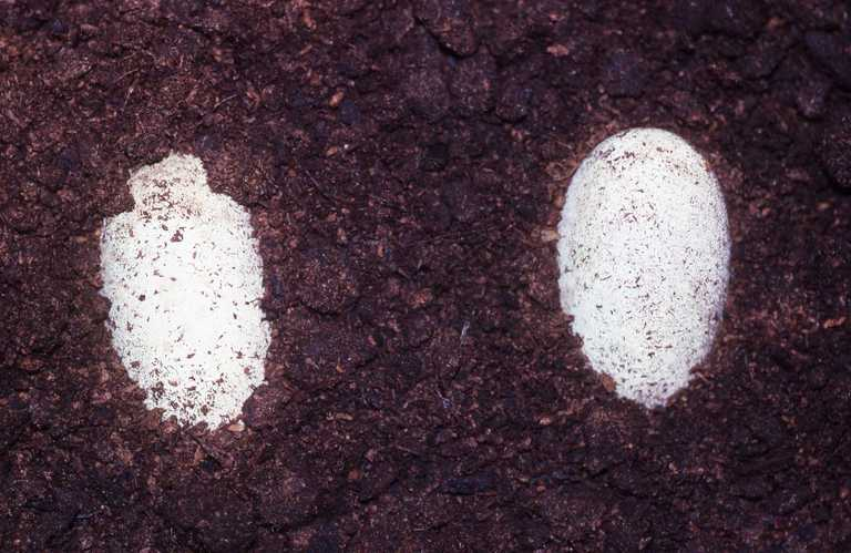 Hydrosaurus amboinensis eggs being incubated in Jersey Zoo